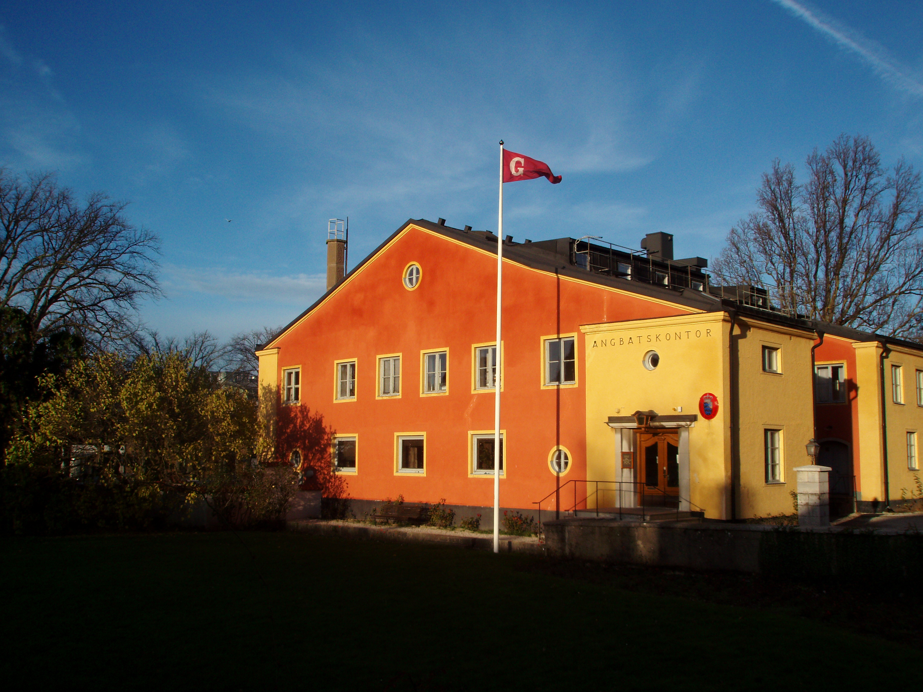 Gotlandsbolaget's headquarters at Hamngatan 1 in Visby.